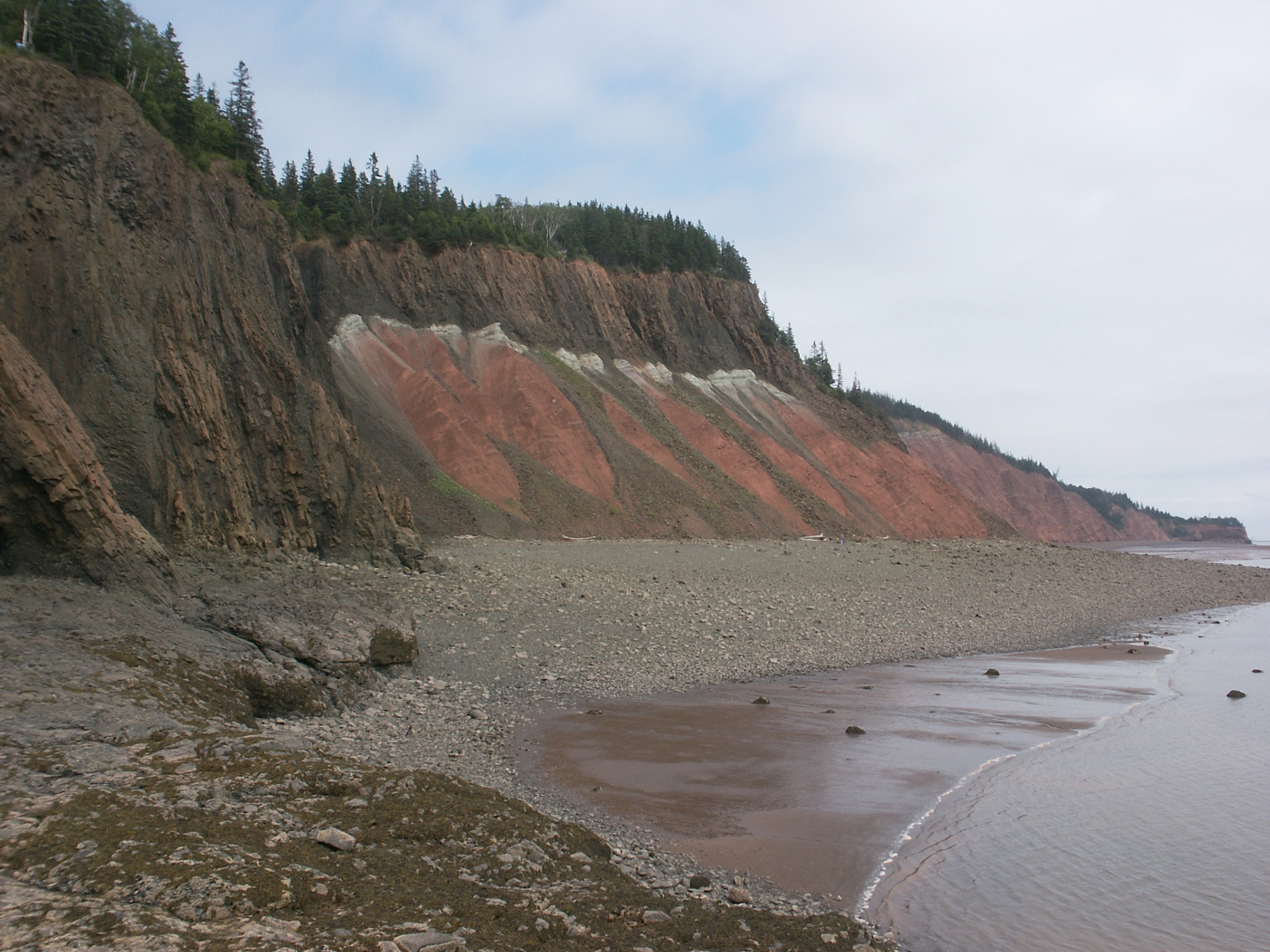 View of the North Mountain Basalt (Early Jurassic) atop the Blomidon Formation (Late Triassic-Earliest Jurassic) at Five Islands Provincial Park, Nova Scotia.